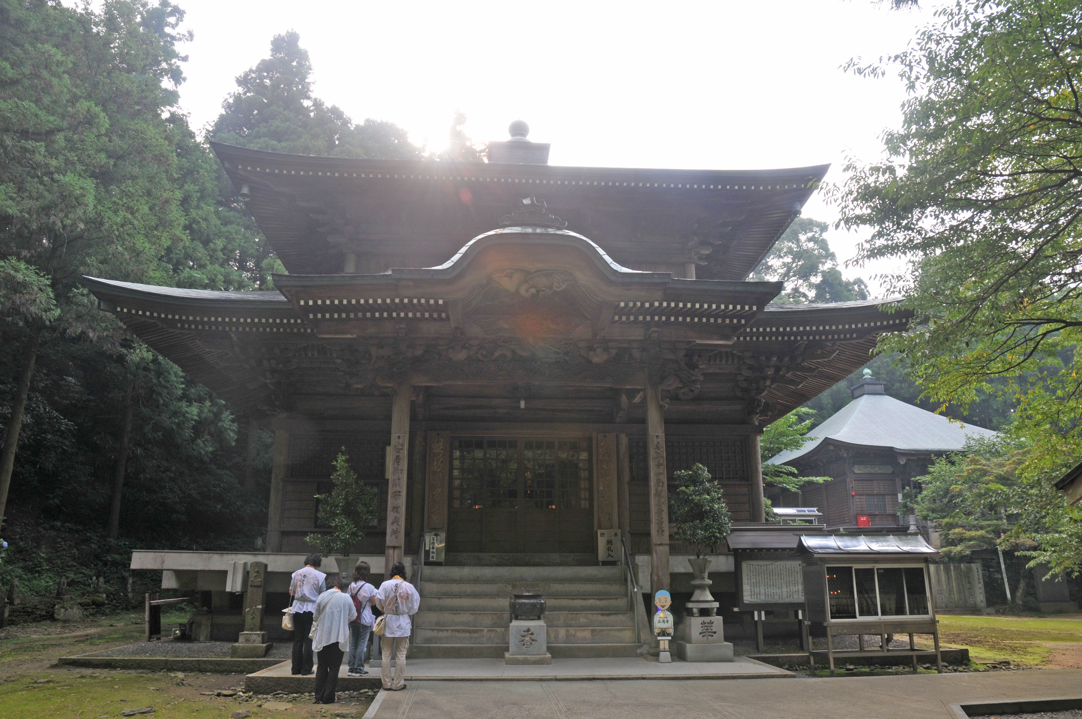 Main temple, Sankaku-ji